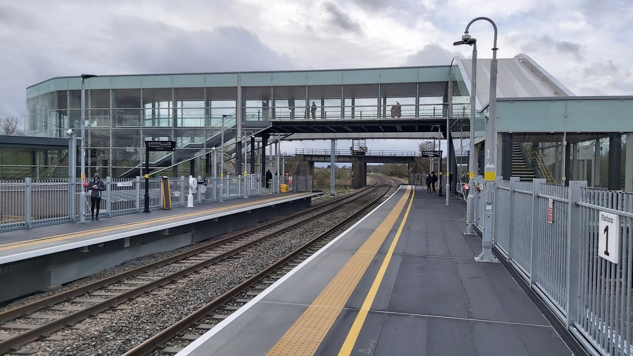 View of station building and footbridge